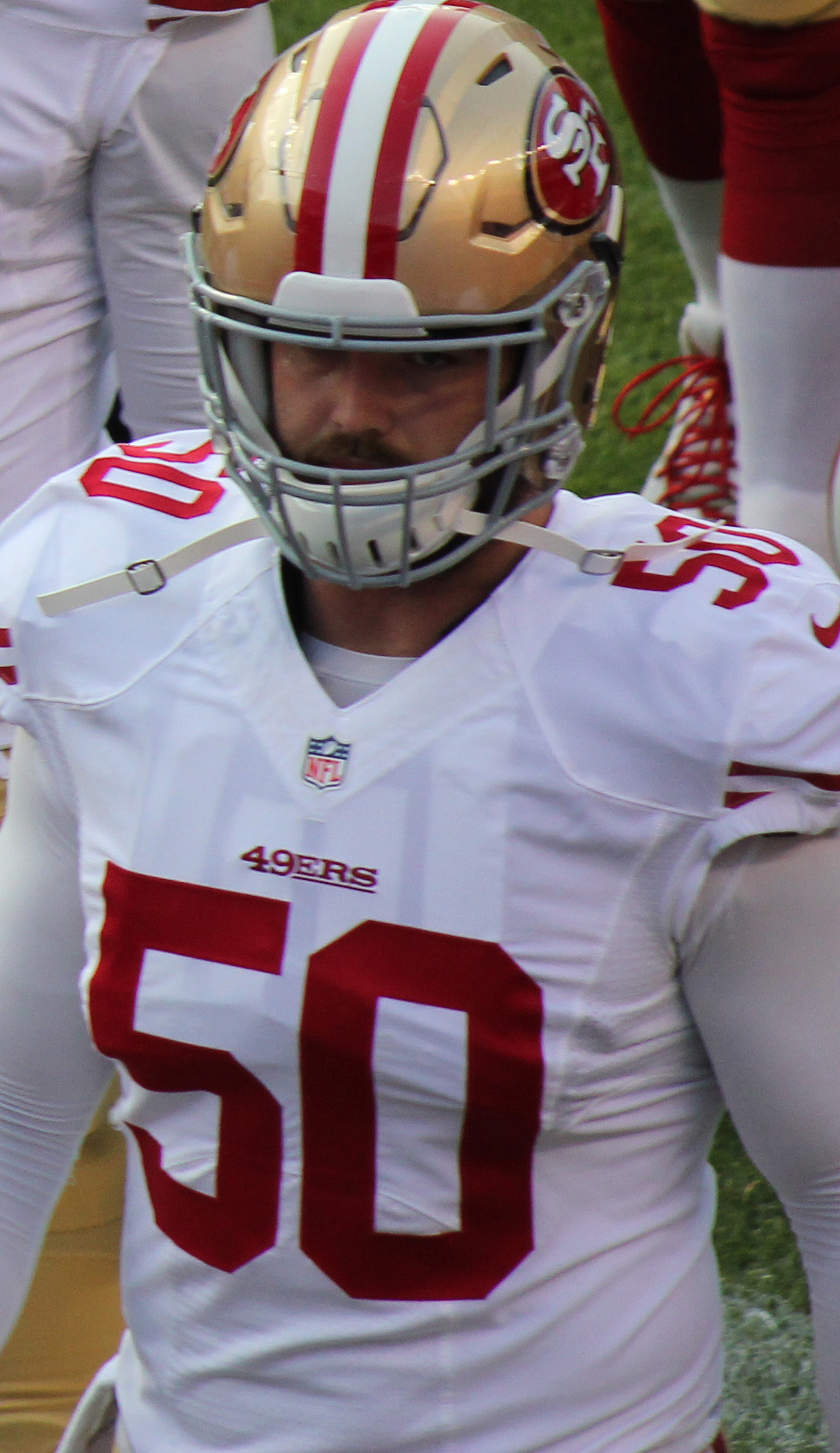 Nick Bellore, a player on the National Football League.